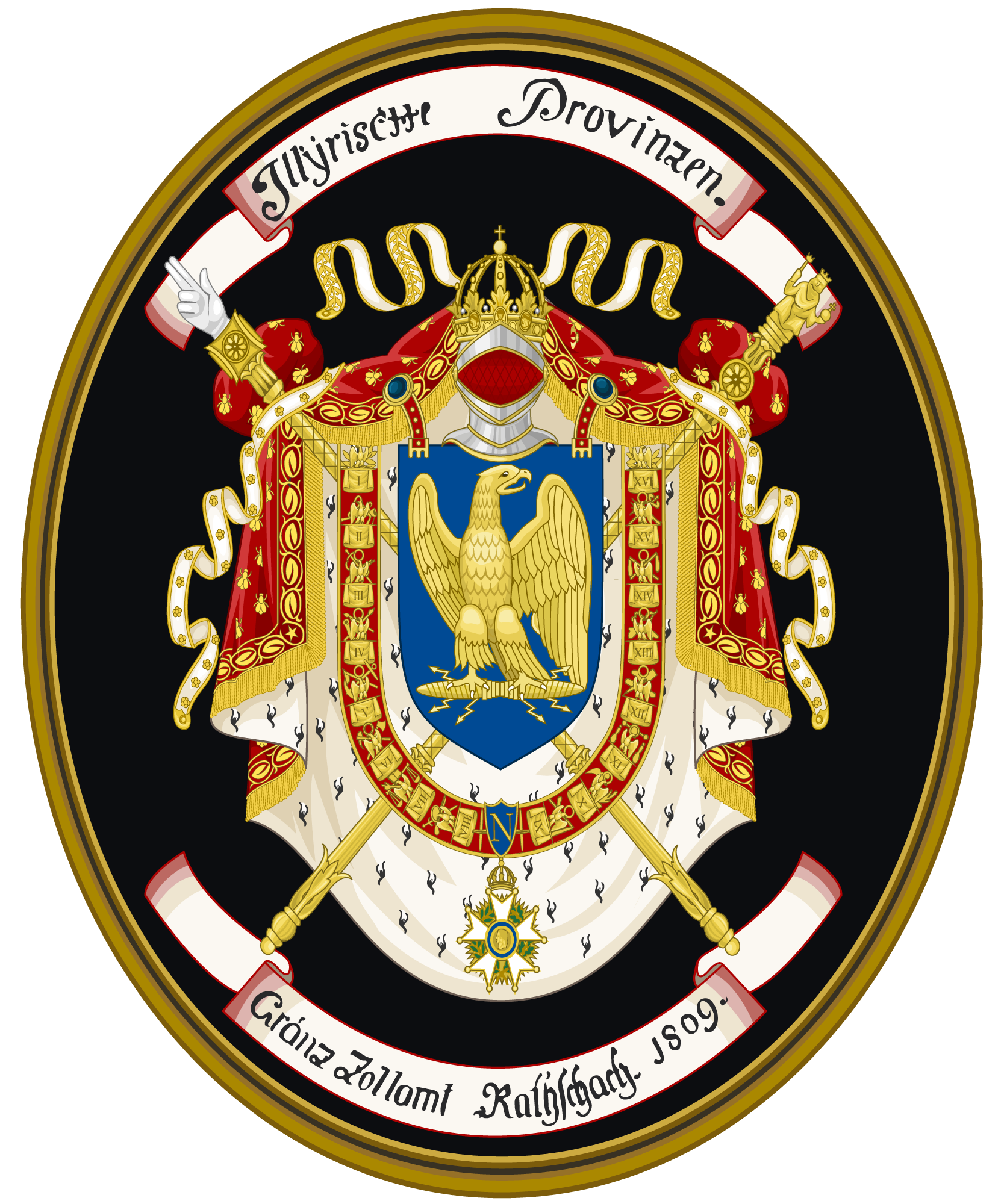 Coat of arms of Illyrian Provinces.